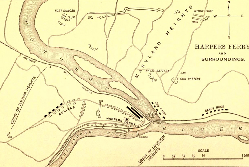 Harpers Ferry in Civil war time